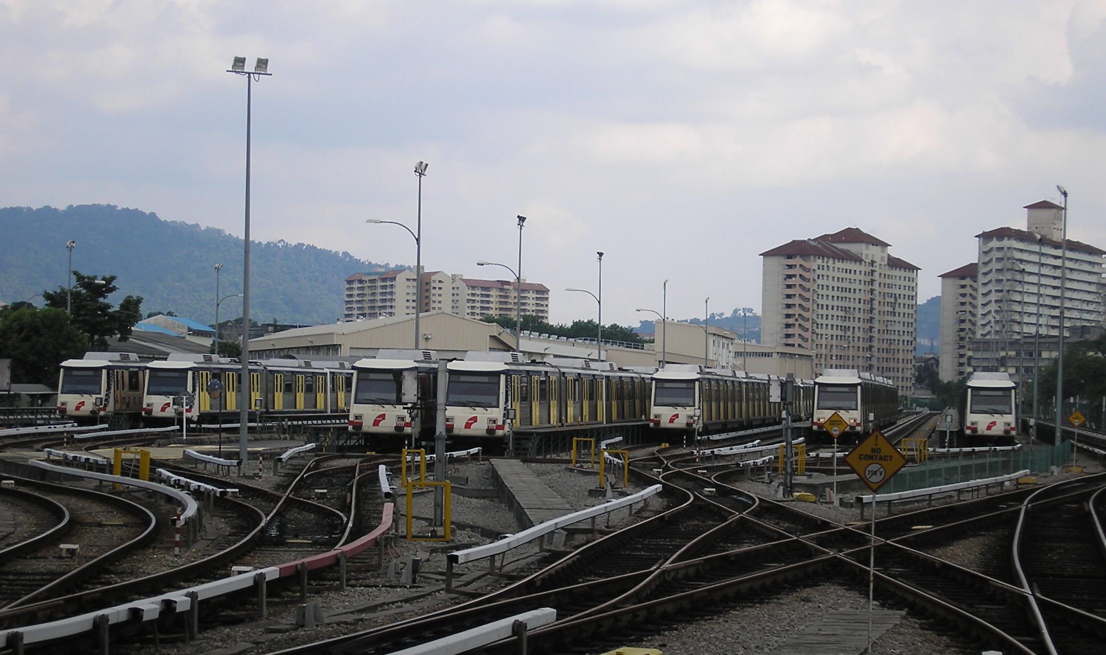 The Ampang STAR LRT depot (Ampang Line), Selangor, Malaysia, as viewed from the island platform of the Ampang station.